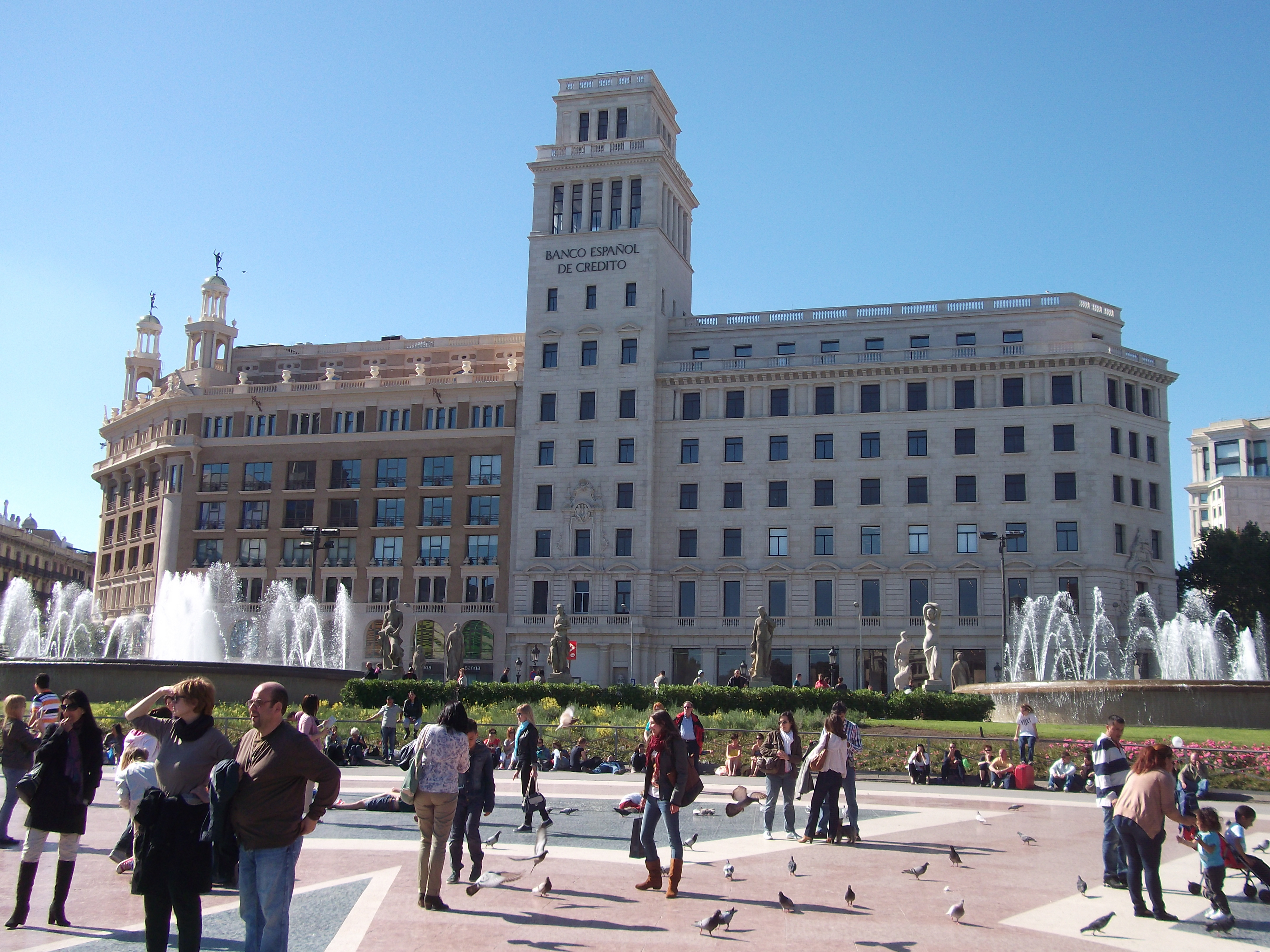 Banco Español de Crédito